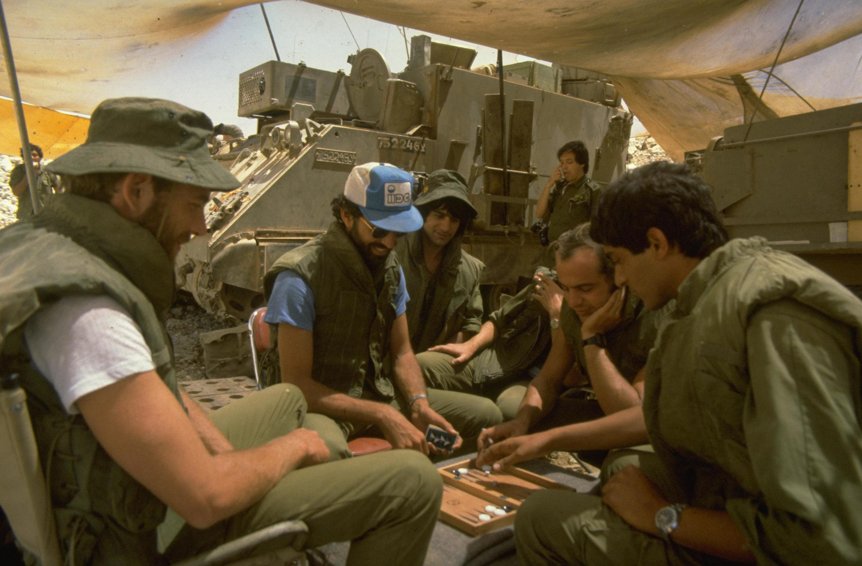 Operation Peace for Galilee. Members of 155 mm mobile gun crew play backgammon during a lull outside Beirut. מבצע שלום הגליל. חיילים משחקים שש-בש בפאתי ביירות במהלך הפוגה Photo: Yaakov Saar (1951–) Alternative names SA'AR YA'ACOV; Jacob Saar; Saʻar, YaʻaḳovDescriptionIsraeli photographerDate of birth 1951 Authority control : Q28751896 VIAF: 298161188 NLI: 001394176 creator QS:P170,Q28751896 , 08/10/1982